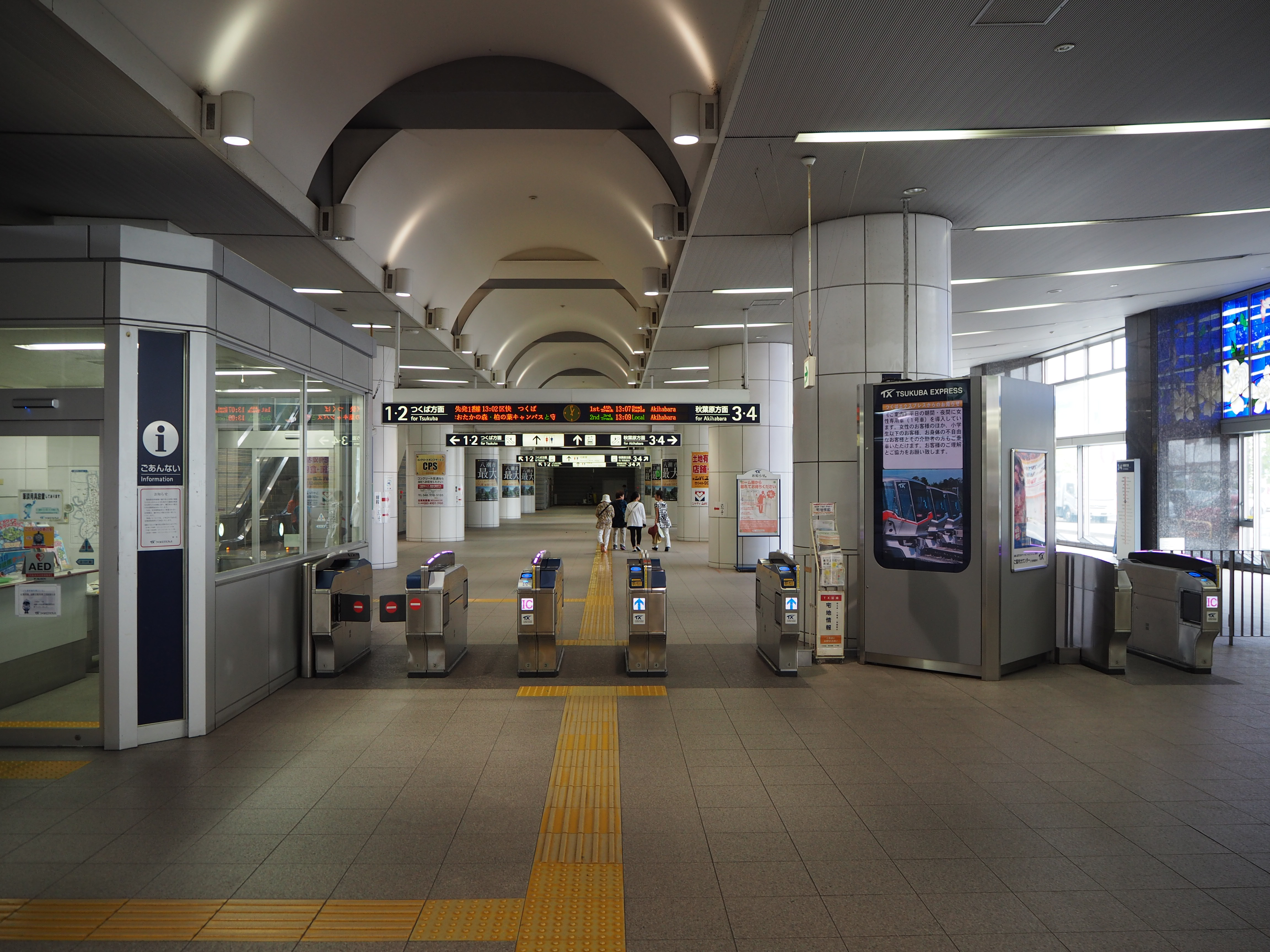 Ticket barriers of Yashio Station